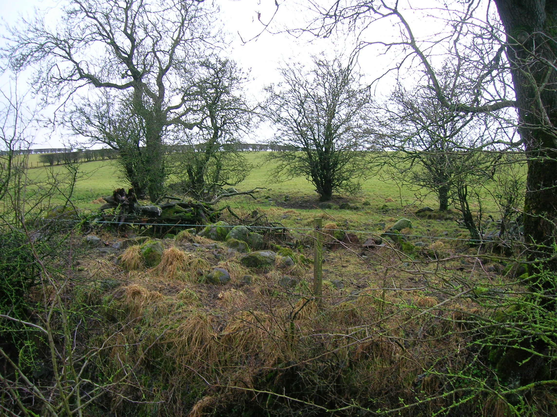 The site of Lochend Cottage at Lambroughton Loch, North Ayrshire, Scotland. Possibly site of an old mill.